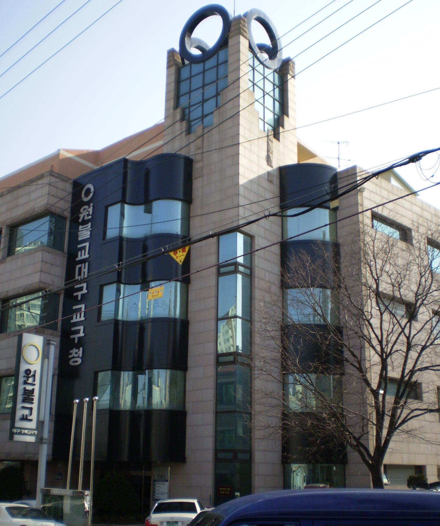 Wonbuddhism center in Daegu, South Korea.